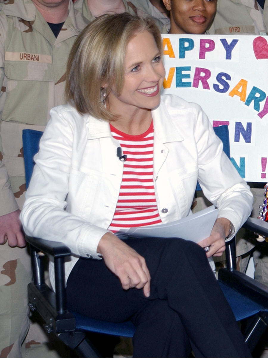 Prince Sultan Air Base, Saudi Arabia (January 14, 2003) -- NBC Today Show host Katie Couric broadcasts live from Prince Sultan Air Base, Saudi Arabia, as part of the show's coverage of Operation Southern Watch. Navy photo by Chief Journalist Douglas H Stutz. (RELEASED)